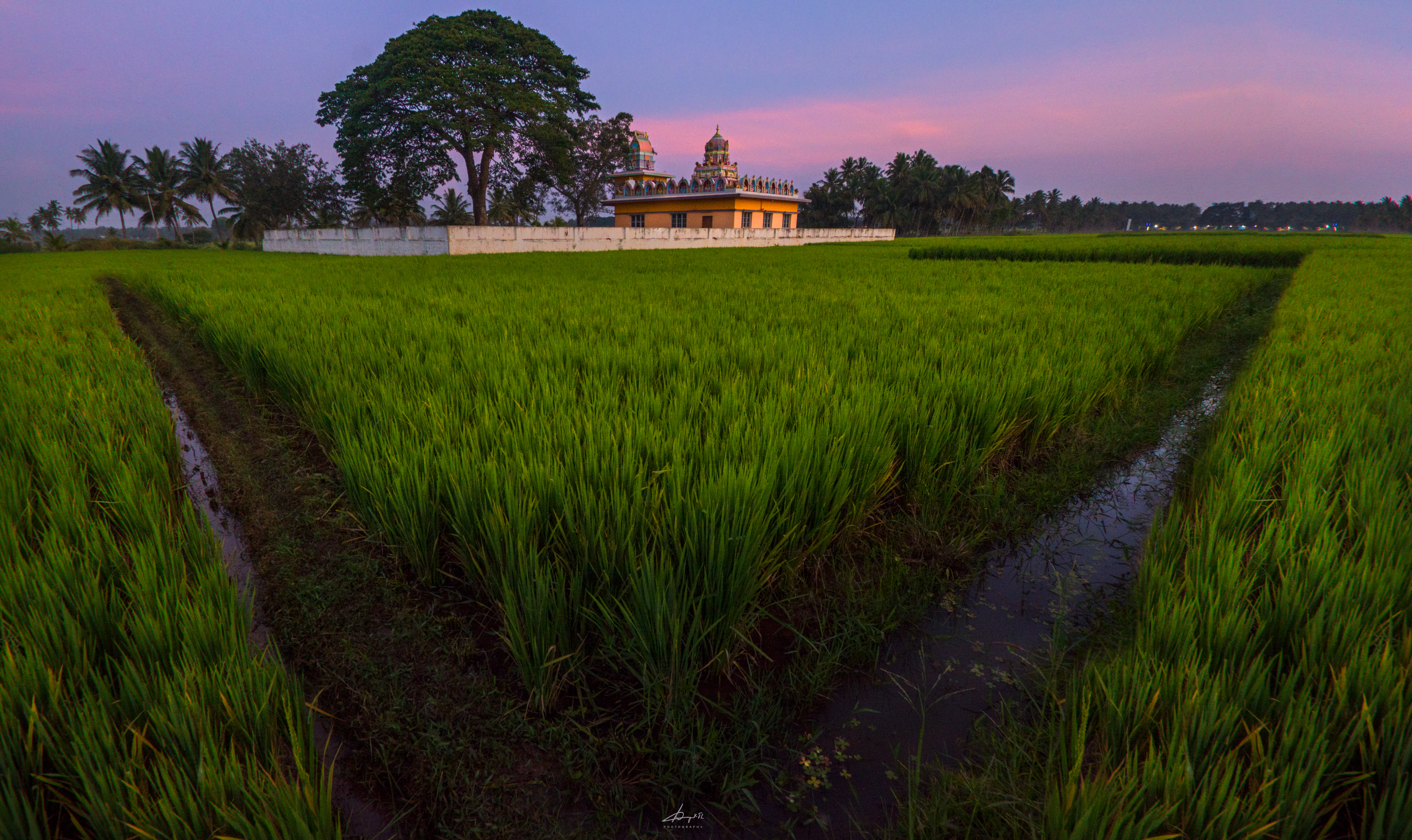 Paddy fields shot during sunset near Srirangapattana